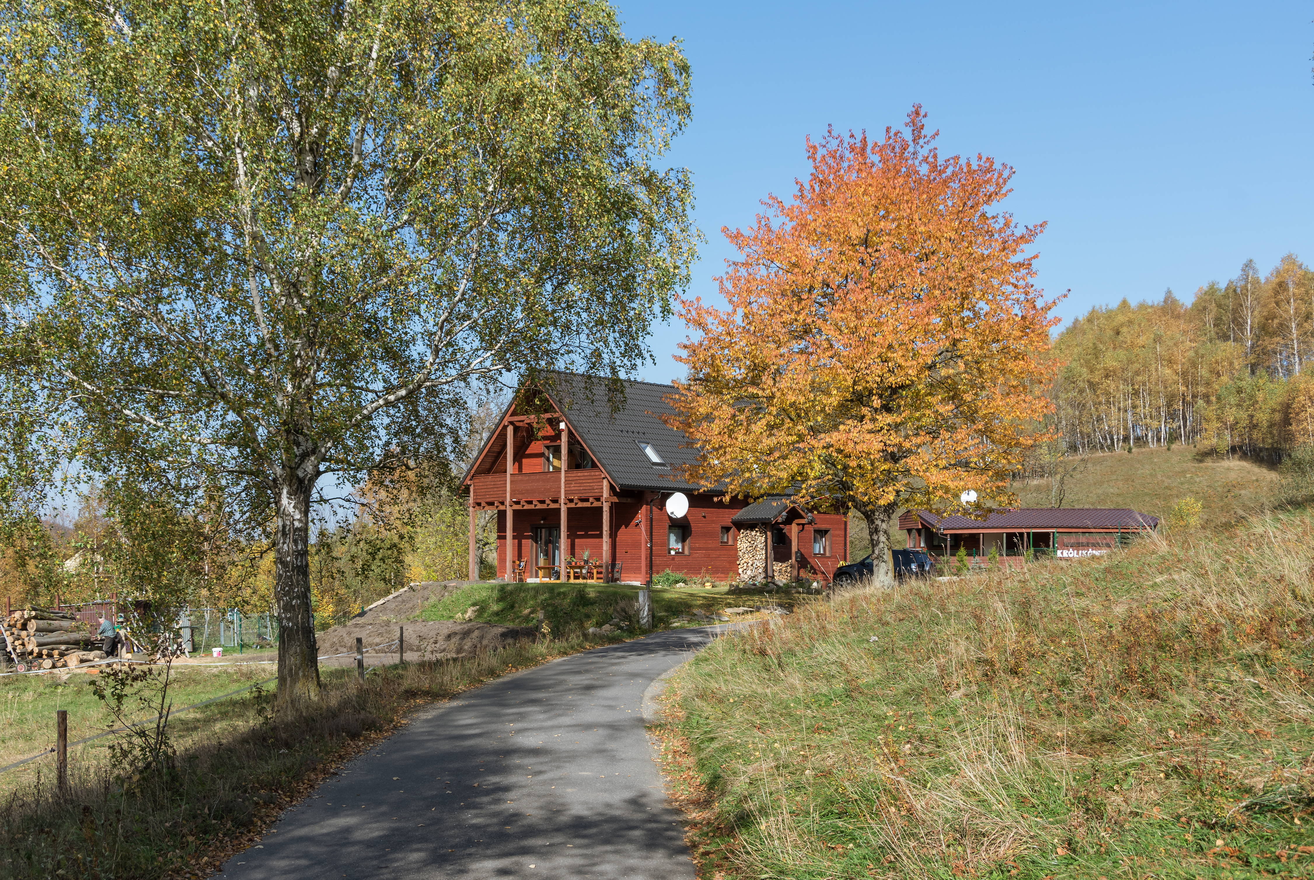 House No. 3c in Nowa Morawa